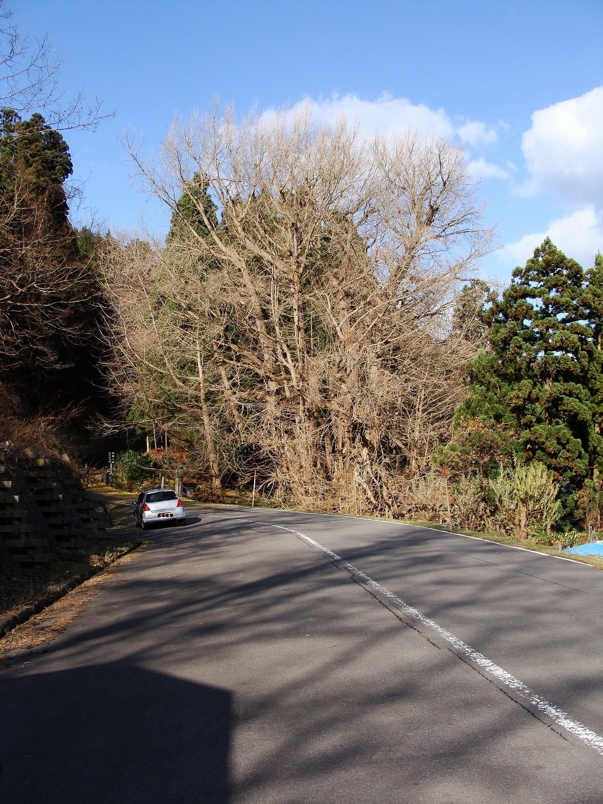 Kitakanegasawa no Ichō (Ginkgo biloba tree of Kitakanegasawa), Biggest Ginkgo in Japan (age of a tree 1000 years or more)